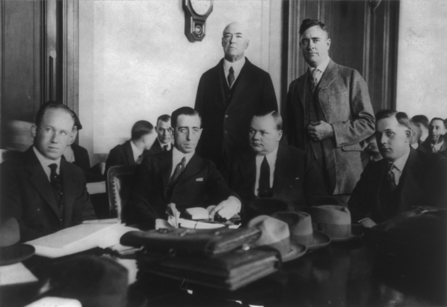 T. M. Smalevitch, Milton Cohen, Gavin McNab, Charles Brennan, Roscoe ("Fatty") Arbuckle, and Arbuckle's brother at trial, in San Francisco, of Arbuckle on manslaughter charge. He was charged in the death of a 26-year-old aspiring actress named Virginia Rappe. This photograph is from the first of three trials in the case.